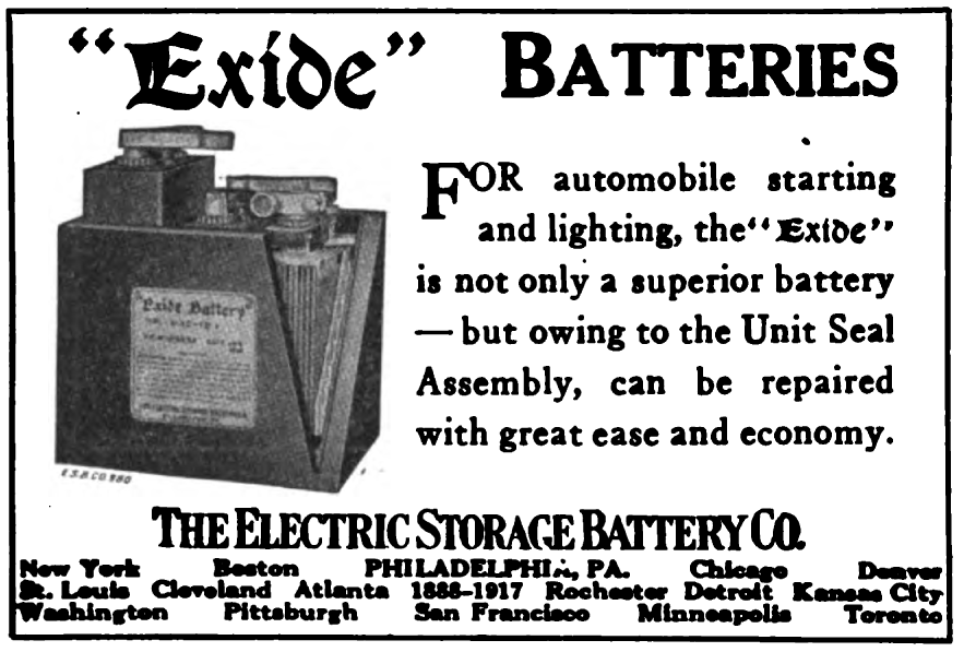 Electric Storage Battery Company advertisement for Exide batteries in the journal Horseless Age, January 15, 1918, volume 43, number 2, page 82.